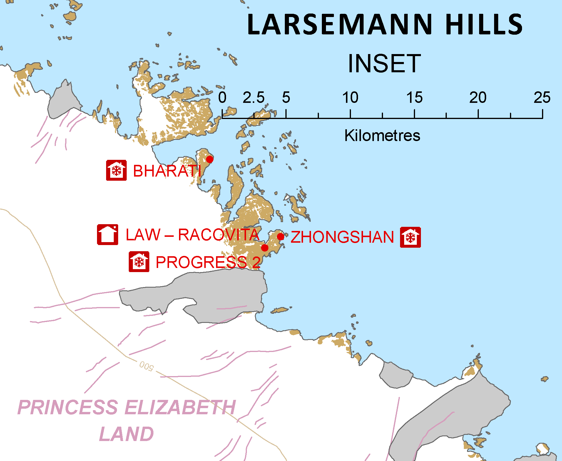 Research stations in Larsemann Hills oasis (2012)